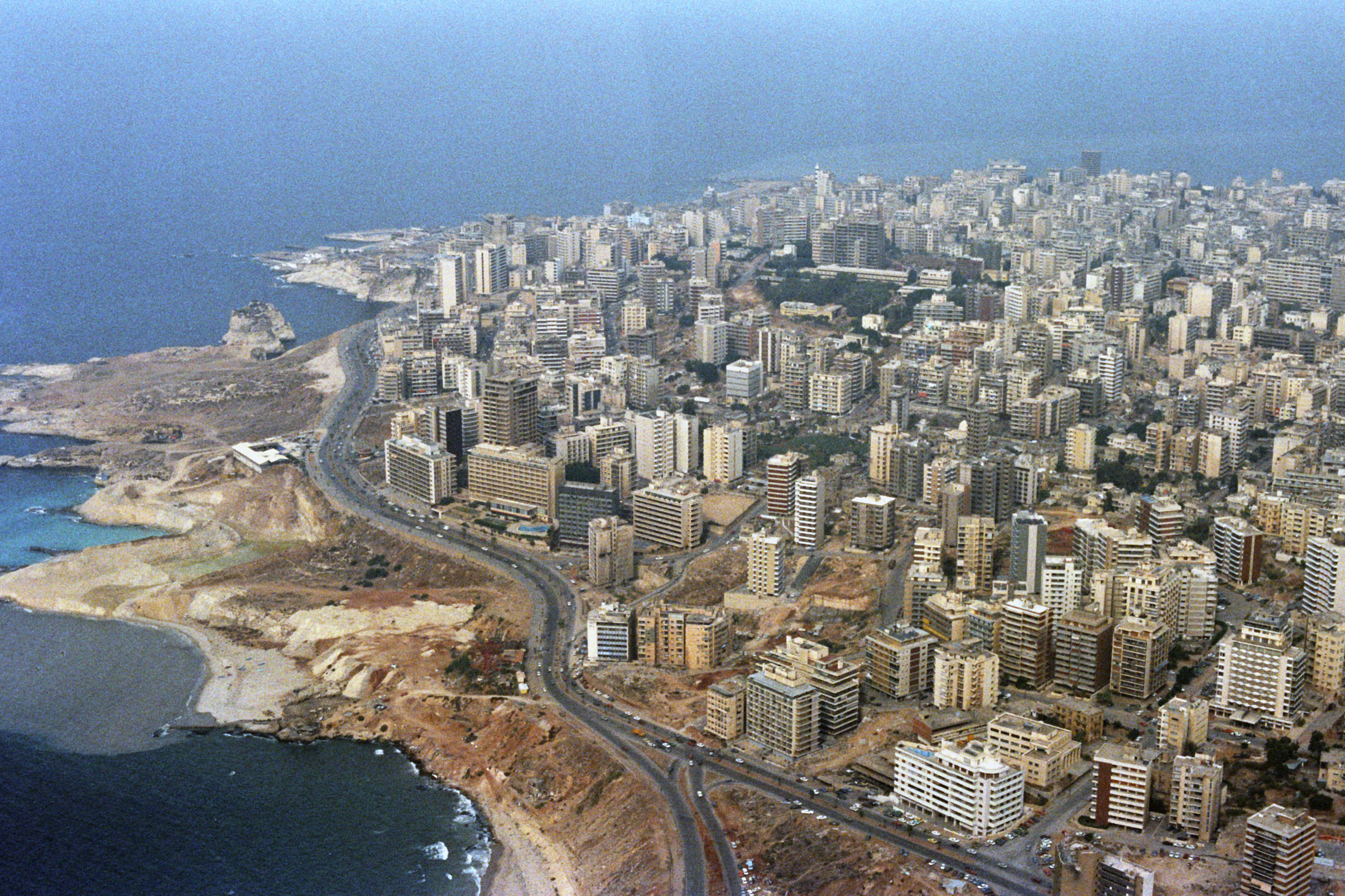 An aerial view of Moslem-occupied West Beirut and the Mediterranean shoreline. Buildings throughout the city have been damaged by shelling during ongoing confrontation between Israeli forces and the Palestine Liberation Organization (PLO)